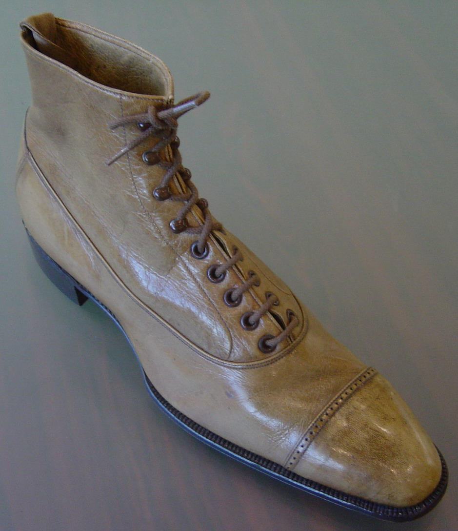 Balmoral boot (female model, build approx. around 1940)